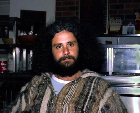 1978 Peter Terry in Melbourne negotiating Split Enz.jpg - Image (photograph) taken by Official Nambassa Photographer and uploaded by User:StoneHenge007, Nambassa dot com Terms of Use: 1/ All users of this image are required to attribute this work to "Nambassa Trust and Peter Terry" and the url: " " is to accompany all use. 2/ Attribution. You must attribute the work in the manner specified by the author or licensor. 3/ For any reuse or distribution, you must make clear to others the license terms of this work. Statement by Nambassa Trust and Peter Terry